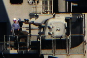 30 mm Breda-Mauser turrets of French naval ship in Toulon